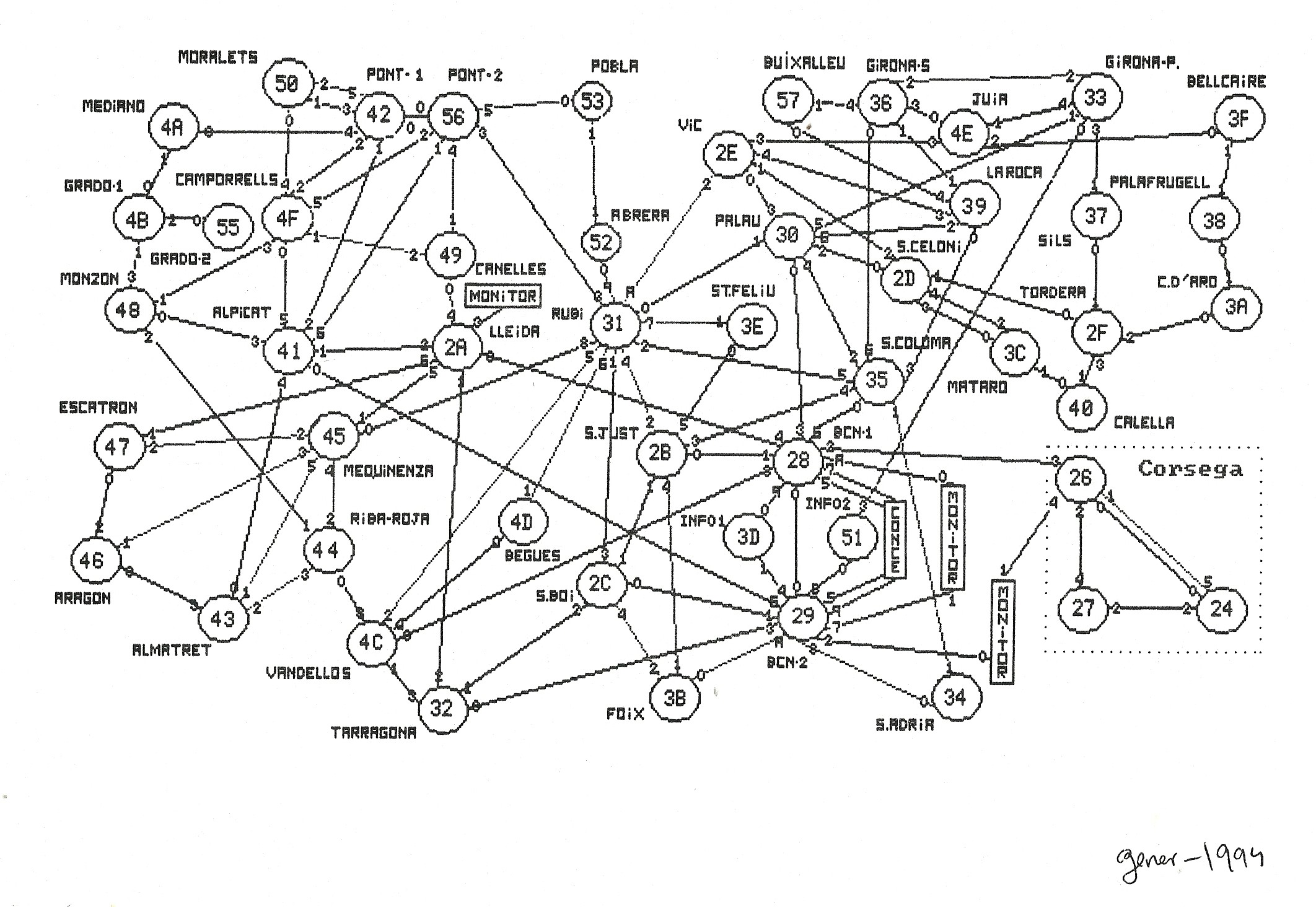 Drawing the TRAME packet switching network by 1994